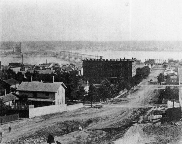 The original Burtis Hotel in Davenport, Iowa. The 1872 Government Bridge, which replaced the first bridge across the Mississippi River can be seen behind the hotel building. The current bridge was built in the 1890's on the same piers.